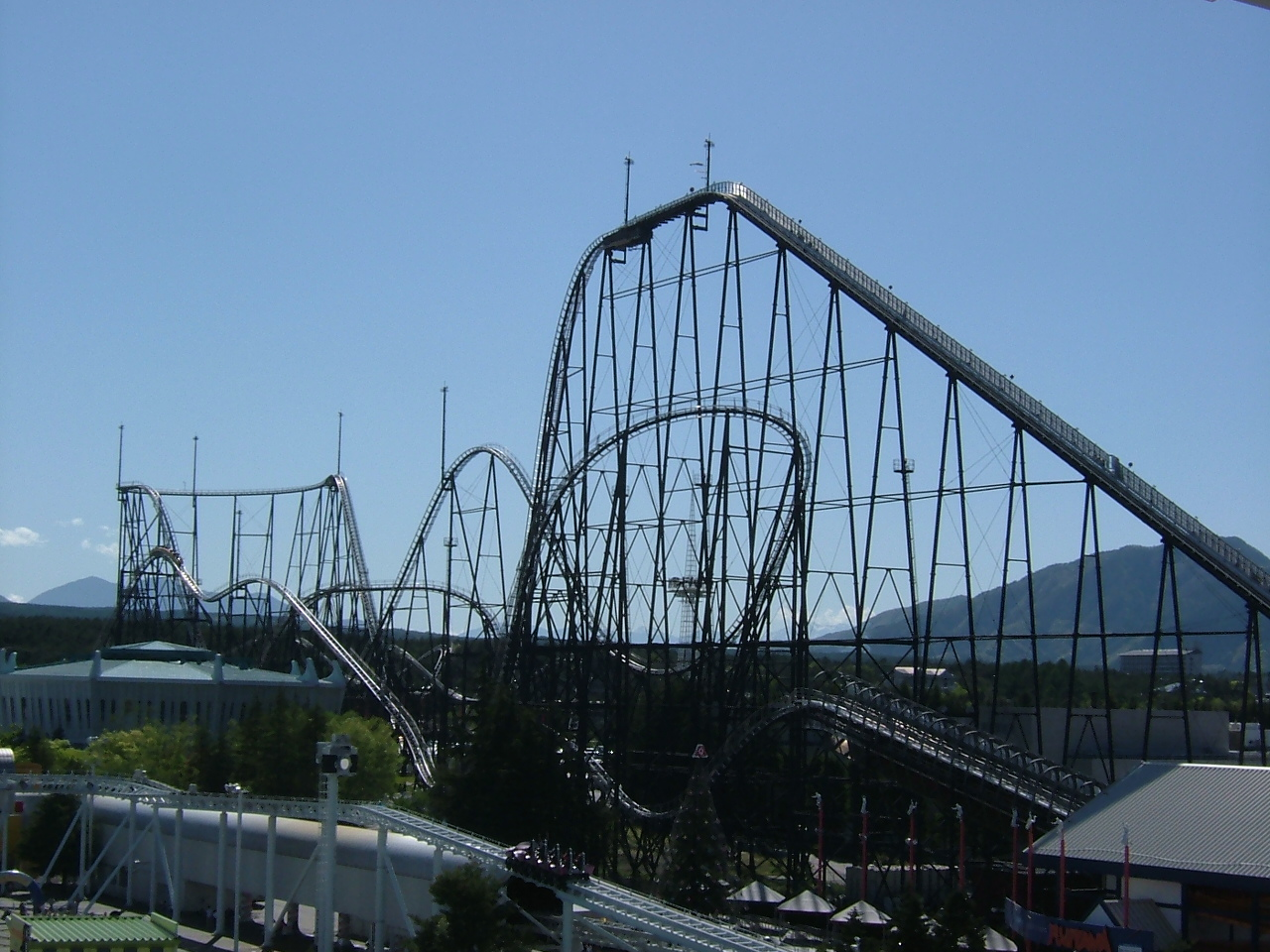 This is the Fujiyama Rollercoaster at the Fuji-Q Highland amusement park in Japan. I took this photo with a digital camera in May 2005.